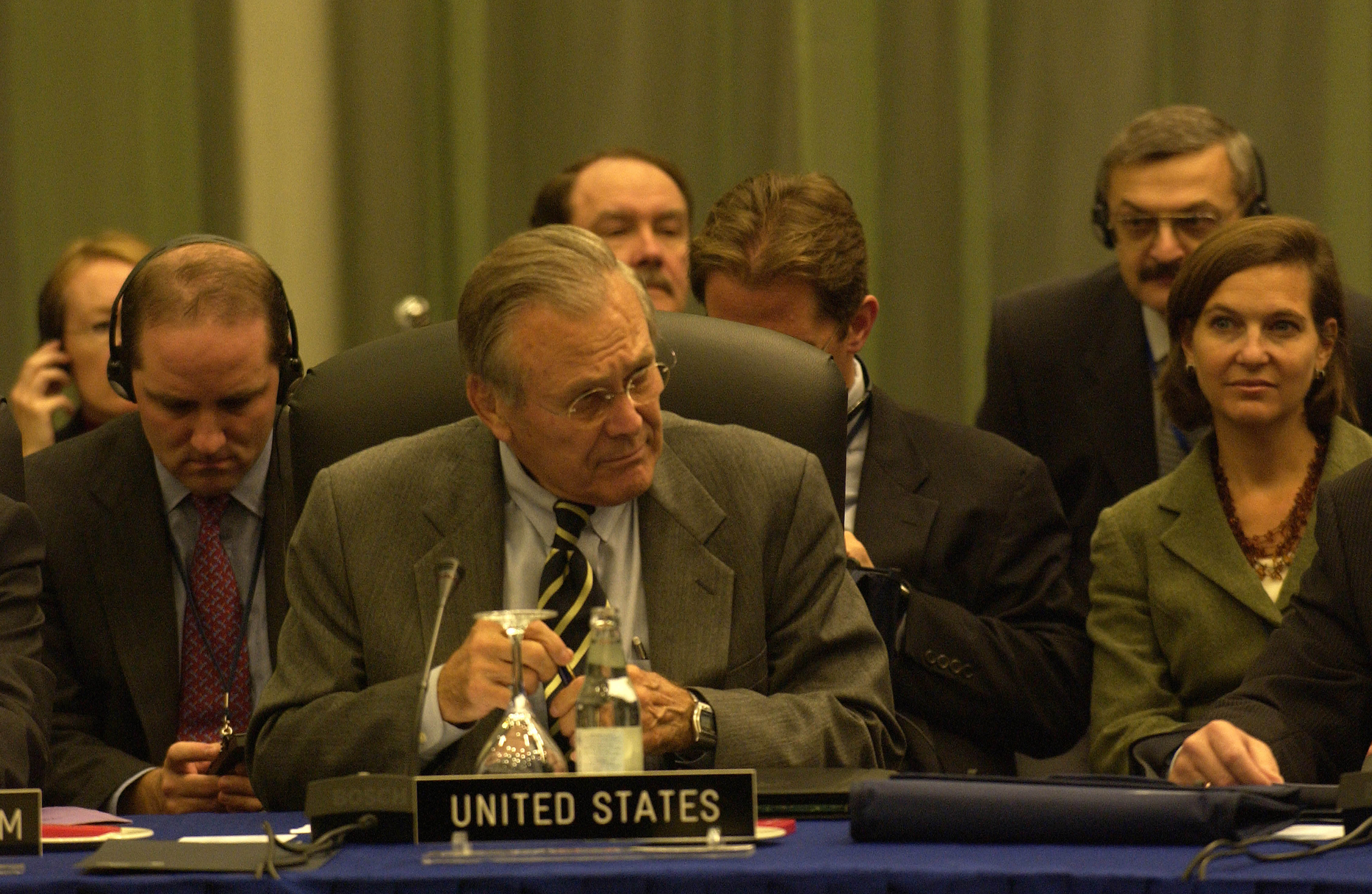 Secretary of Defense Donald H. Rumsfeld listens to remarks at the NATO-Ukraine High Level Consultations in Vilnius, Lithuania, on Oct. 24, 2005. Rumsfeld is in Vilnius to attend the consultations and to conduct bilateral meetings with his counterparts.